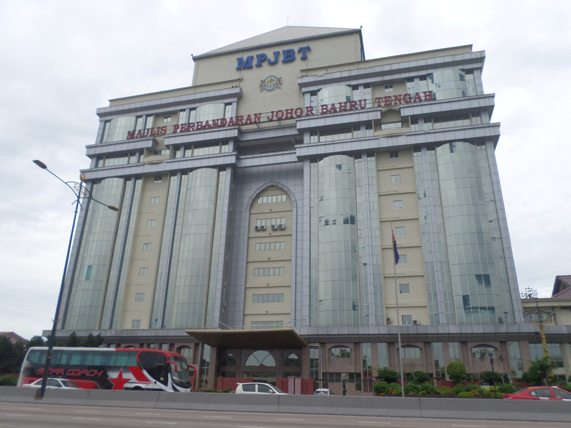 Johor Bahru Tengah Municipal Council, Skudai, Johor Bahru, Johor, Malaysia